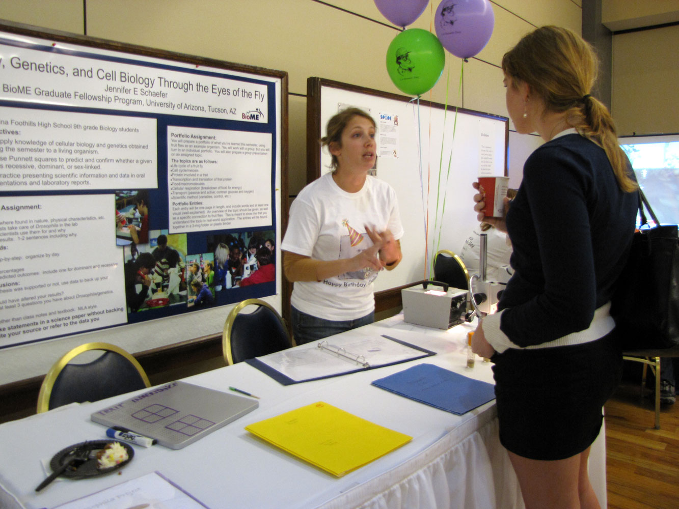 A BioMe Fellow's Table